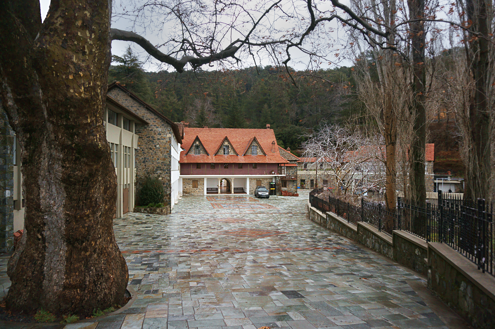 Troditissa Monastery, Troodos, Cyprus